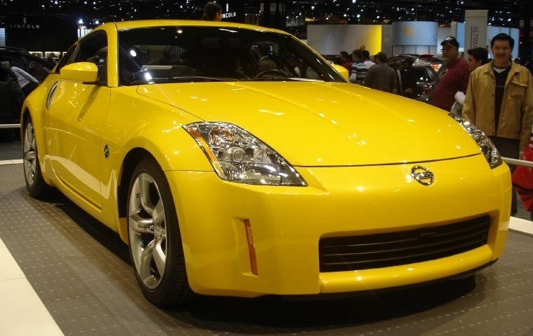 Nissan 350Z 35th Anniversary Edition at the 2005 Chicago Auto Show